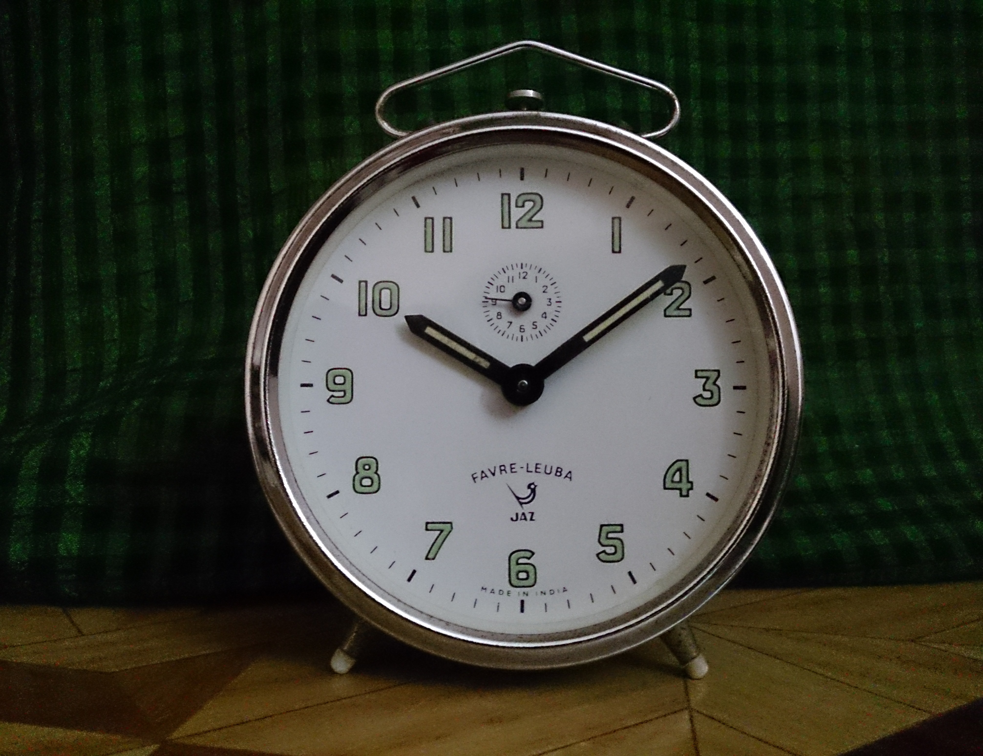 Favre-Leuba alarm clock